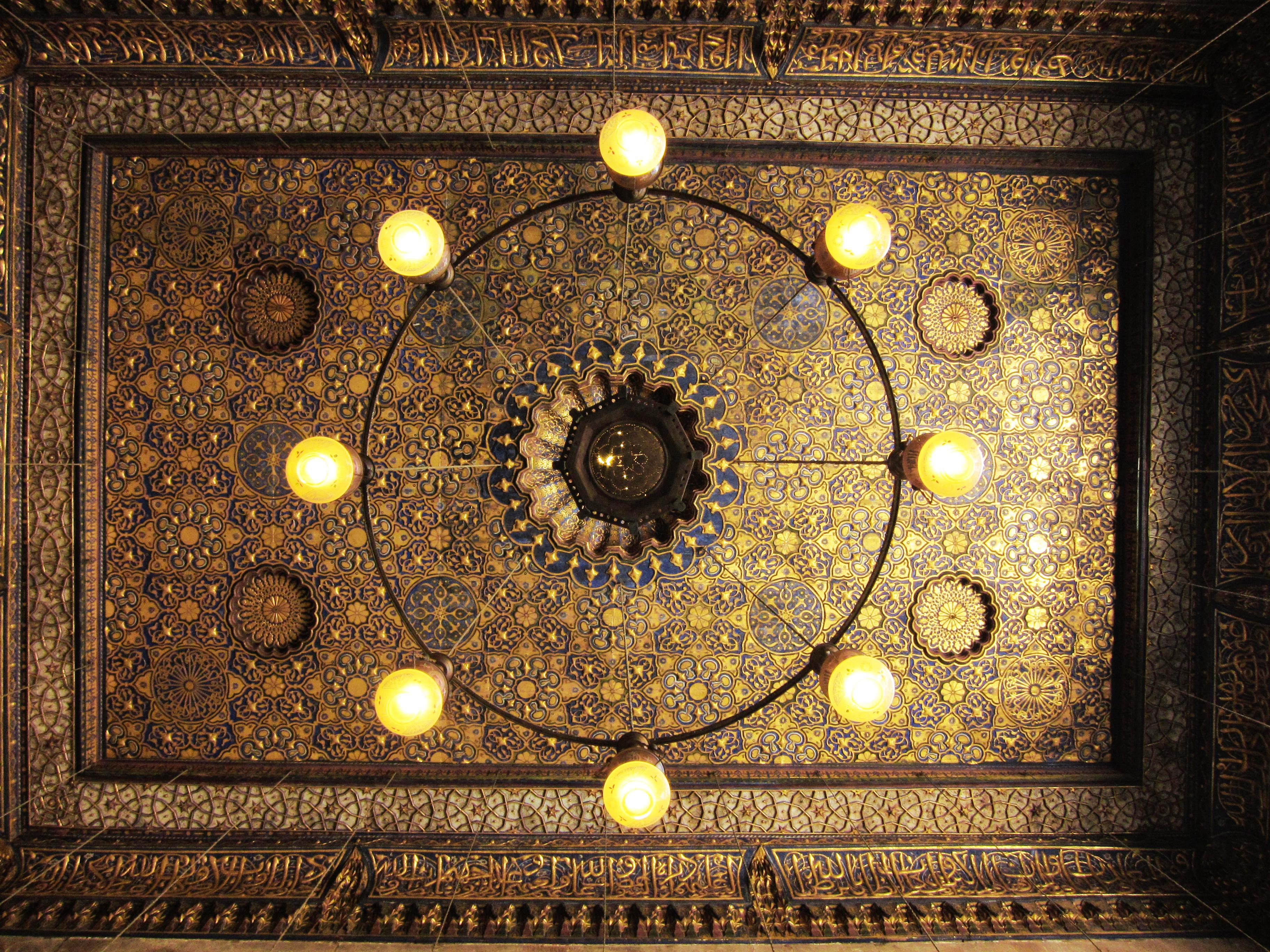 Sultan Barquq, the founder of the Burji or Circassian Mamluk dynasty, built his complex between 1384 and 1386 in the coveted Bayn al-Qasrayn area. The architect Shihab al Din Ahmad ibn Muhammad al Tuluni, who belonged to a family of court architects and surveyors, was in charge of part of the construction. The name of Jarkas al Khalili, the master of Barquq's horse and the founder of the famous Khan al Khalili, appears in the inauguration inscription on the facade and in the courtyard. More.